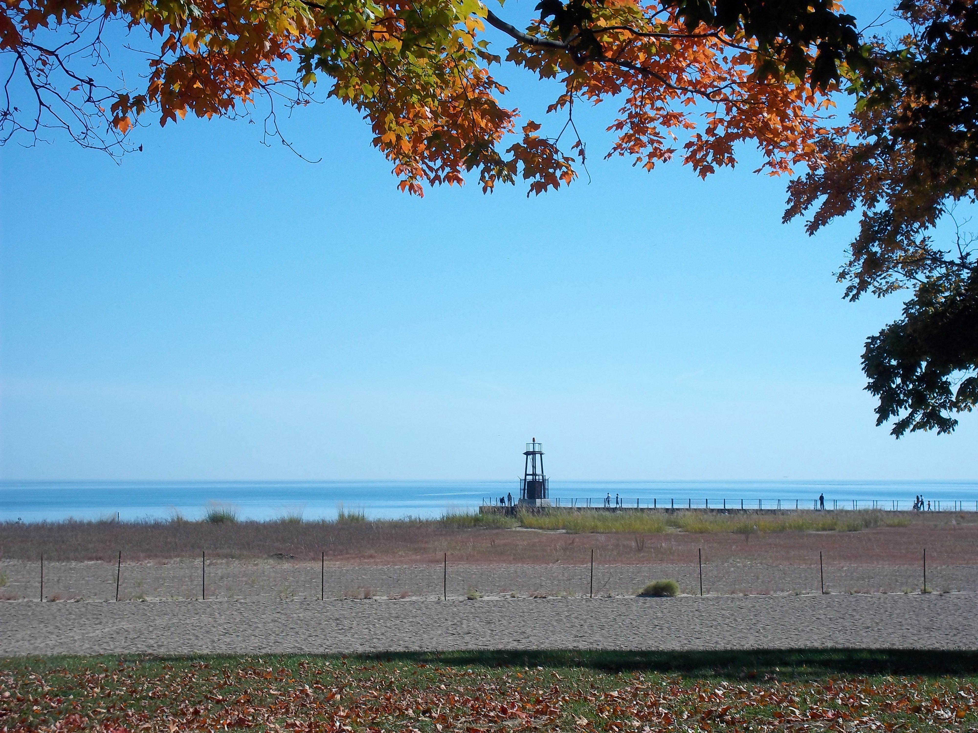 Loyola Park Rogers Park Chicago